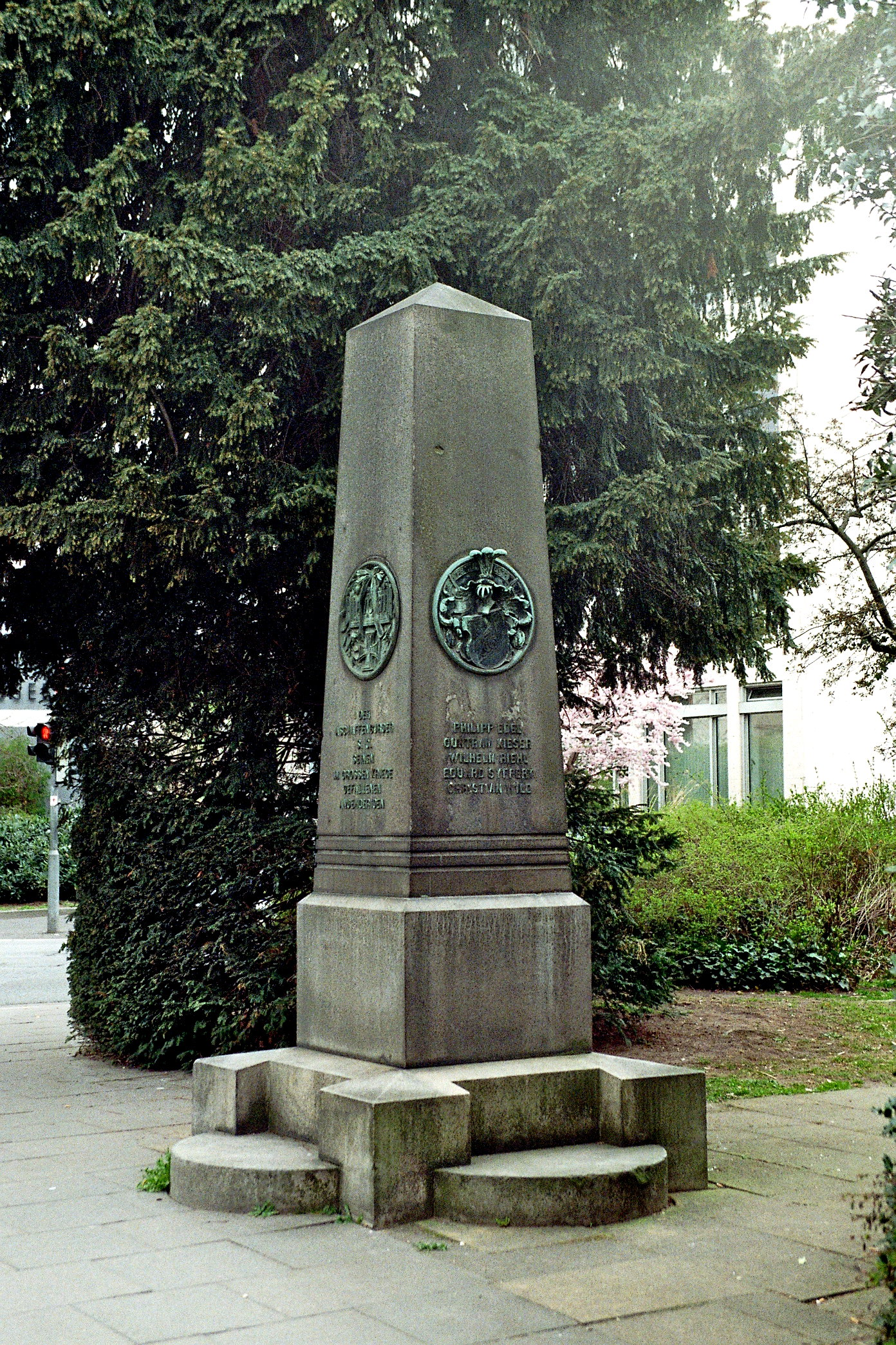 Monument of forestal students in Aschaffenburg, Bavaria/Germany Denkmal der Forststudenten in Aschaffenburg, Bayern